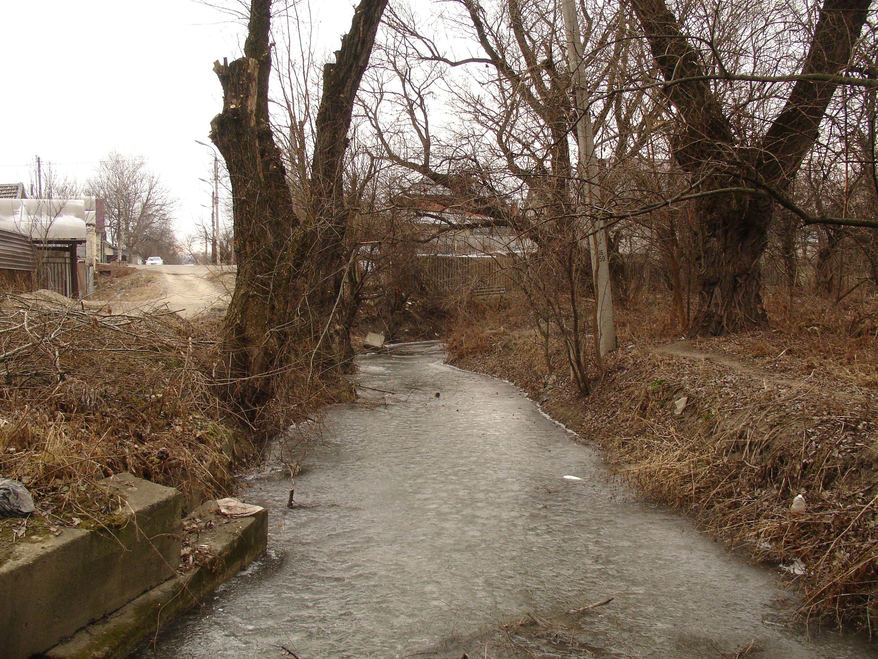 Bugunta River in Yessentuky town. A view from bridge at 9-th of January Street, Yessentuki, Stavropol Krai, Russia.